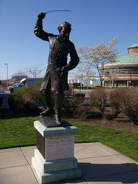 Statue at Blasco Library in Erie, Pennsylvania